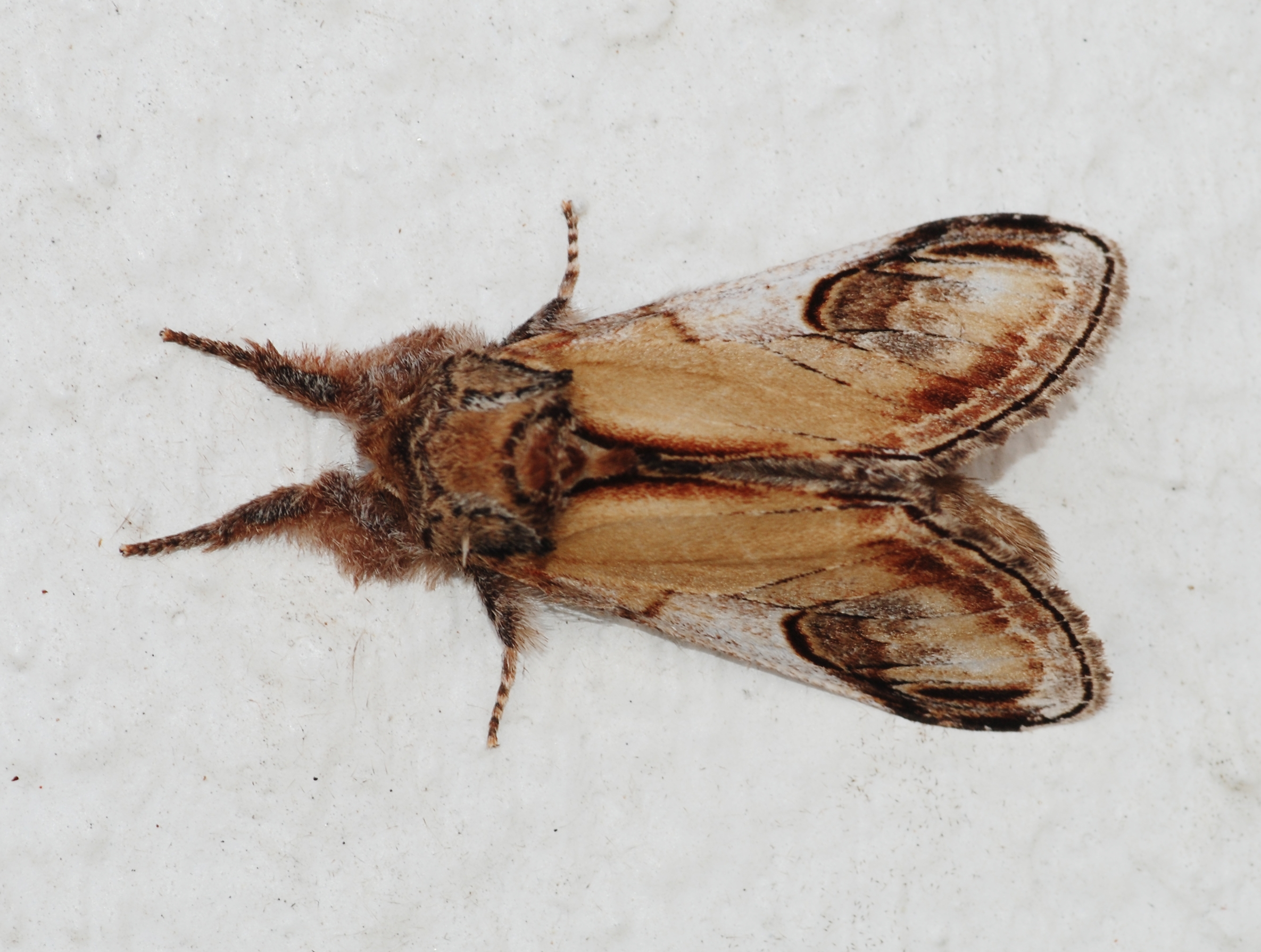 Pebble Prominent Moth (Notodonta ziczac)